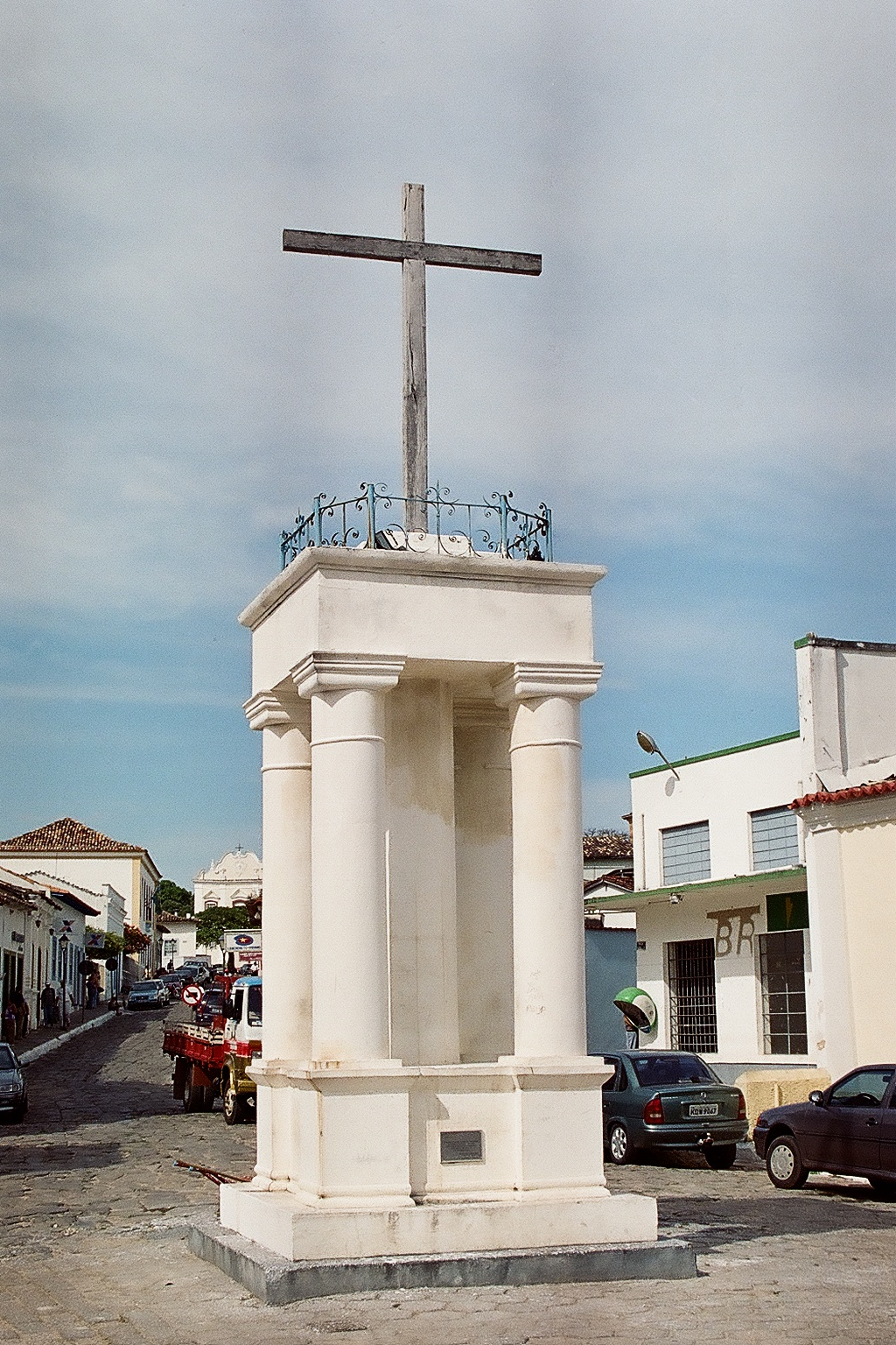 Goias City - Cross Anhanguera - State of Goias - Brazil